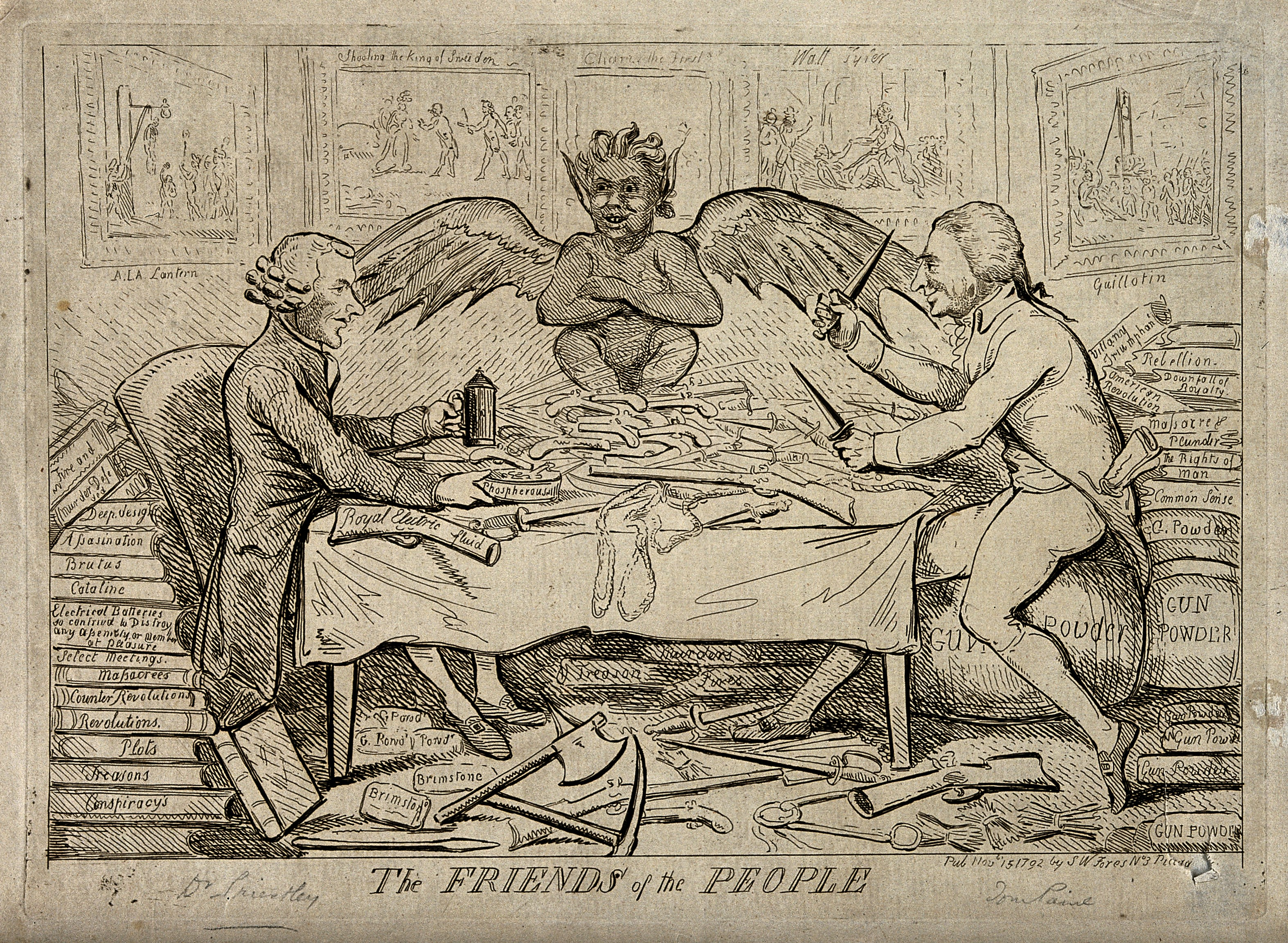 The republican solidarity of Joseph Priestley and Thomas Paine; indicated by the grinning devil that links them. Etching by I. Cruikshank, 1792. Iconographic Collections Keywords: arms and armor; DEVIL; paine, thomas, 1737-1809; priestley, joseph, 1733-1804; Isaac Cruikshank; Caricatures; Joseph Priestley; Thomas Paine; republicanism; etchings